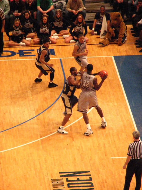 Georgetown University Hoyas men's basketball player Jeff Green passes to teammate Jonathan Wallace during the finals of the 2006-2007 Big East Conference Men's Basketball Tournament at Madison Square Gardens in New York City